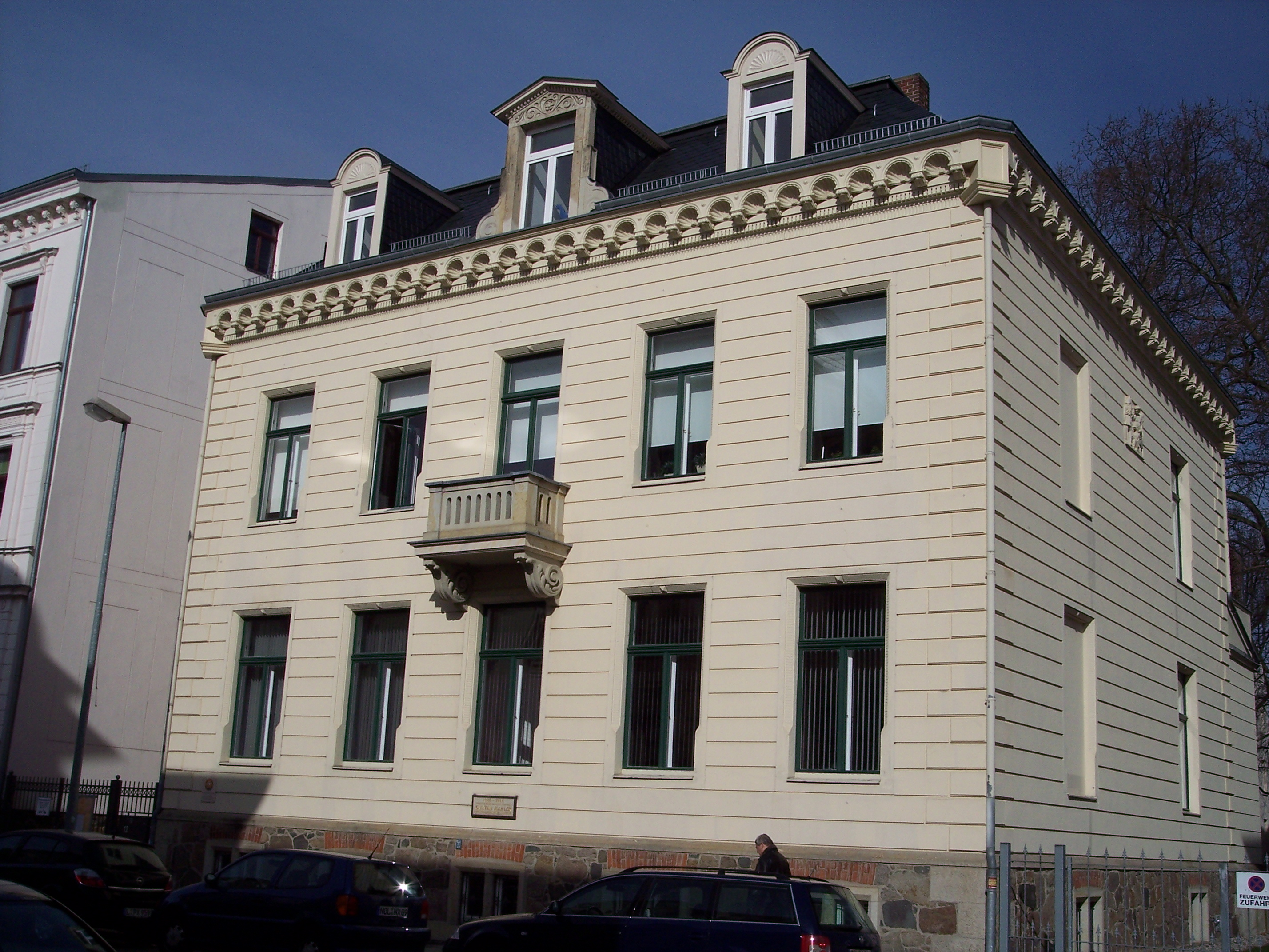 Gustav Mahler's home in Leipzig 1887-1888, Gustav-Adolf-Straße 12, the place where he composed his Symphony No. 1.